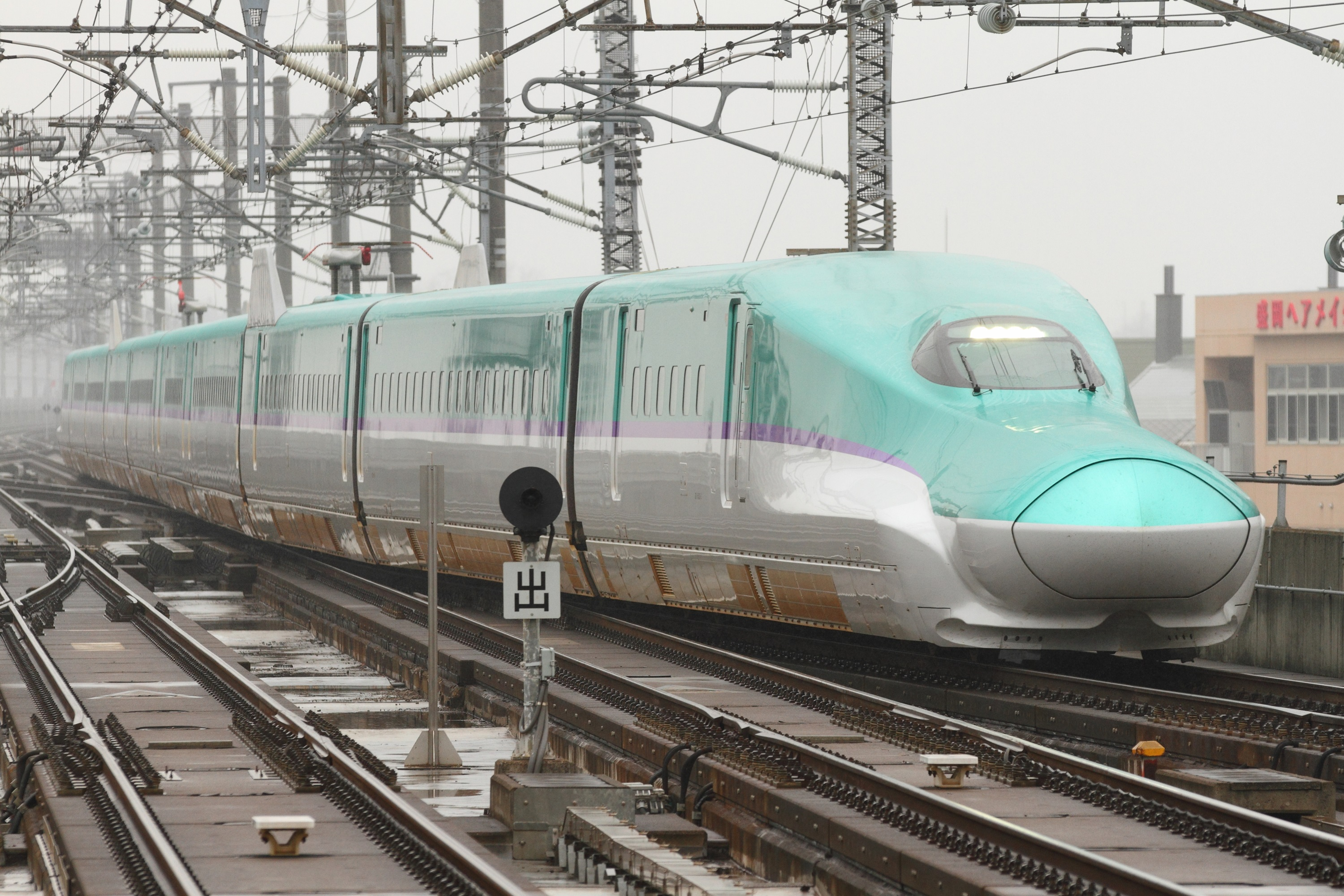 JR Hokkaido H5 series shinkansen set H2 approaching Morioka Station on a test run